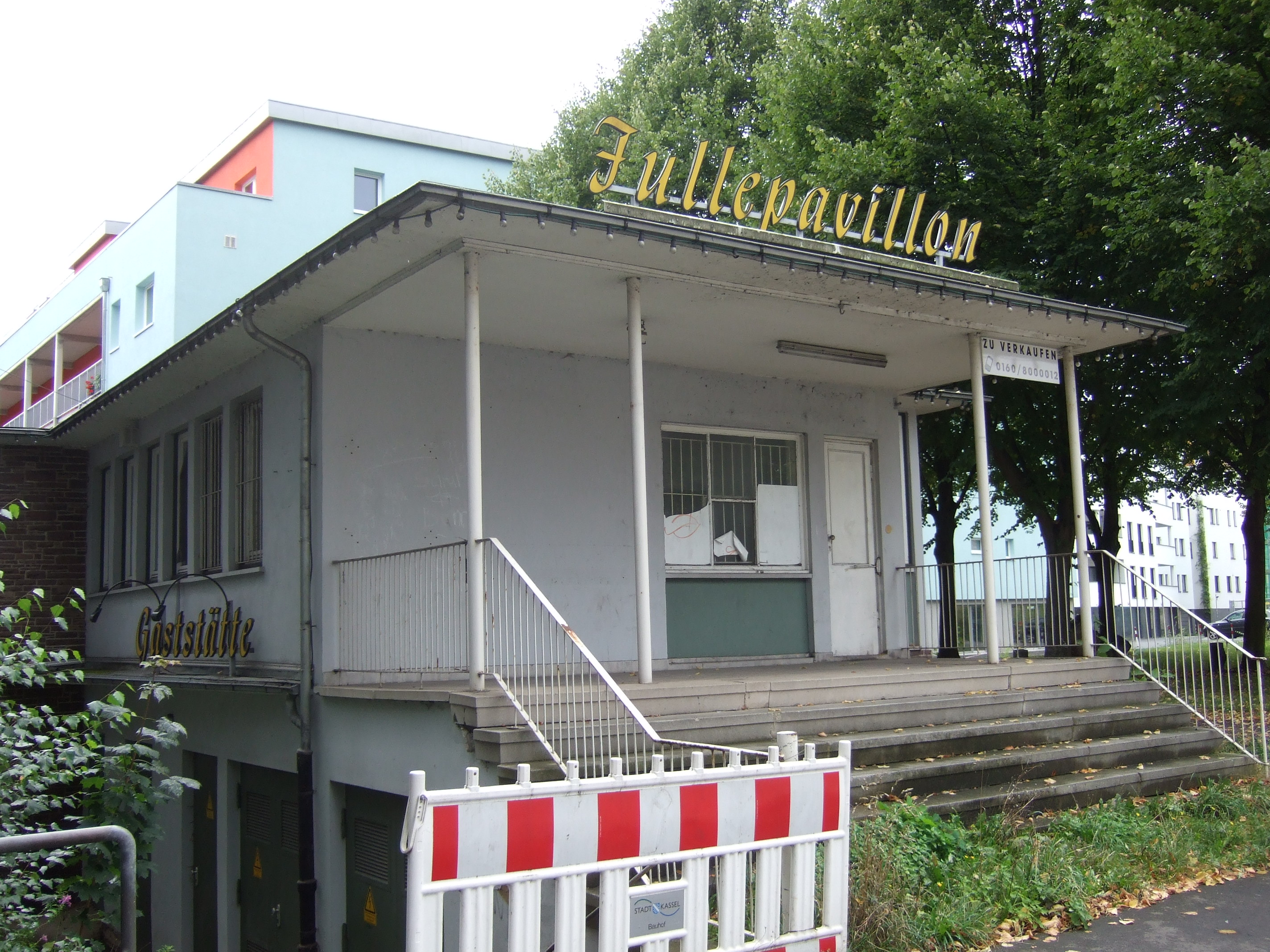 Fullepavillion Kassel